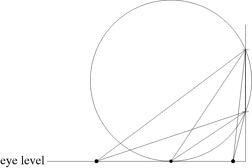 A geometric solution to Regiomontanus' maximization problem.